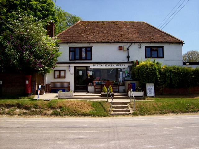 Barton Stacey - Village Stores And Post Office A well stocked village store and post office.